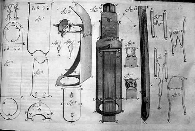 Drawing of microscopes owned by Antonie van Leeuwenhoek